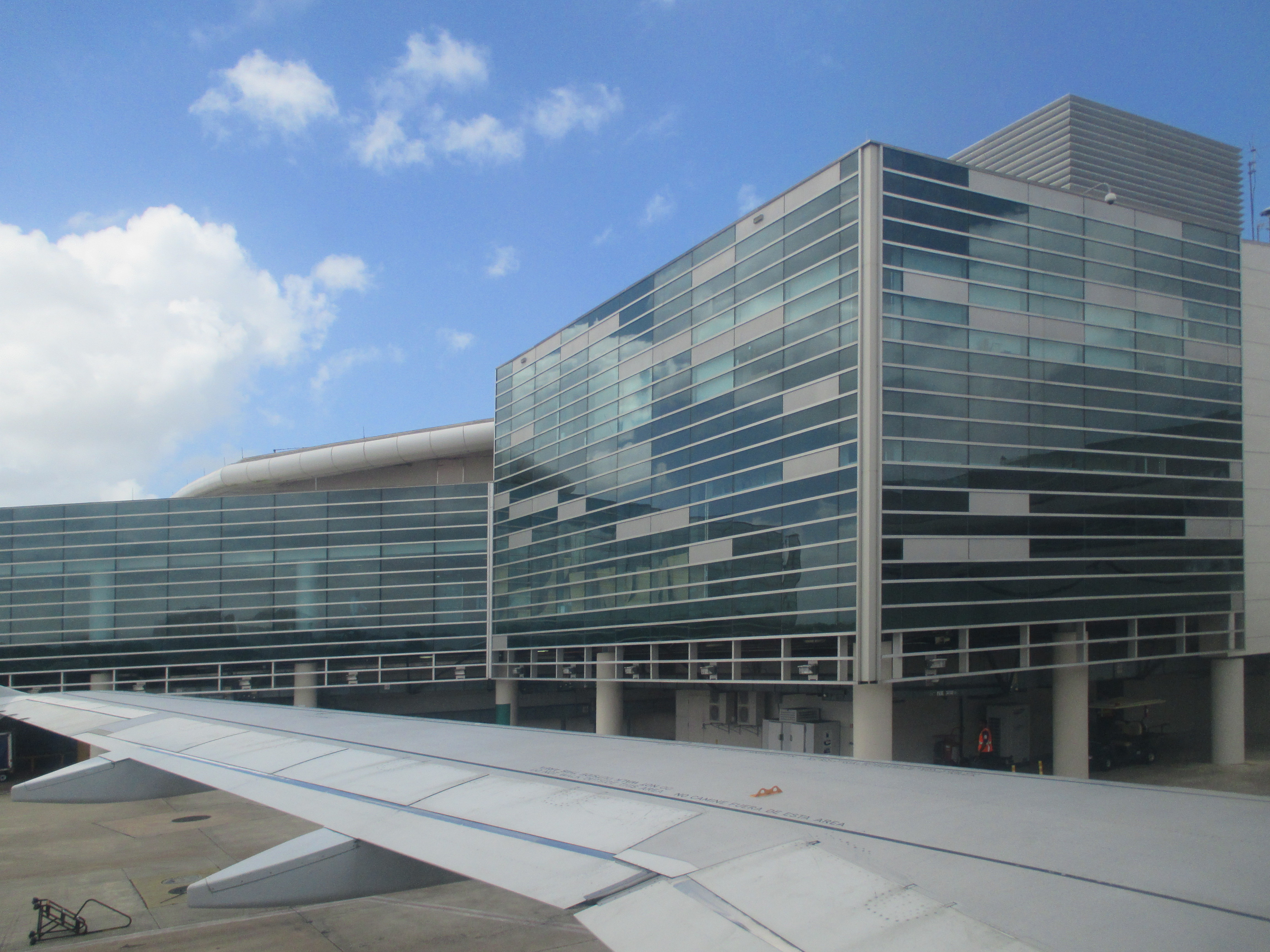 a terminal building, seen from a taxiway